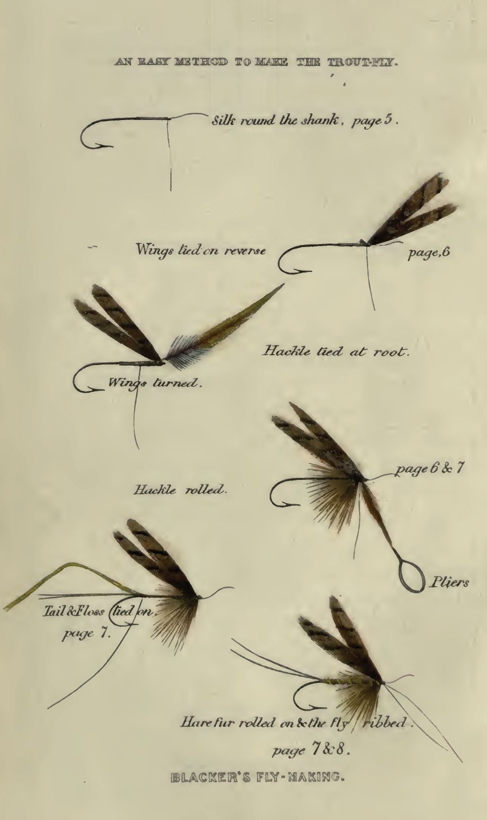 Plate 3 - An Easy Method to make the Trout-fly from Blacker's Art of Fly Making, William Blacker, 1855